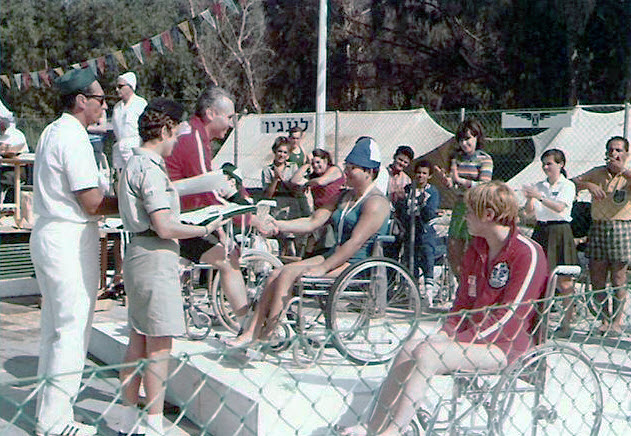 Ora Goldstein when receiving gold medal Paralympics Tel Aviv (1968)